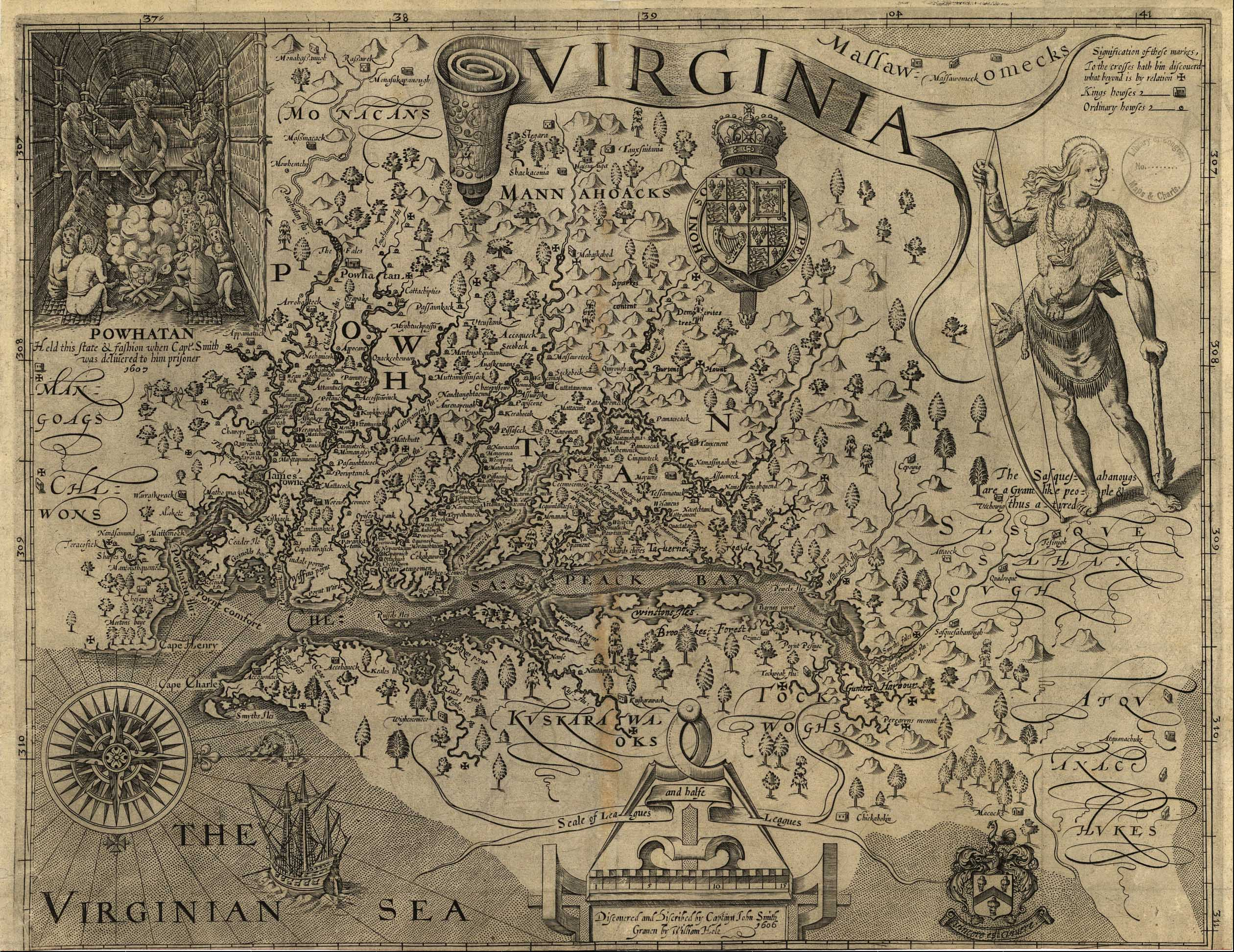 John Smith, A Map of Virginia: With a Description of the Countrey, the Commodities, People, Government and Religion (1612)